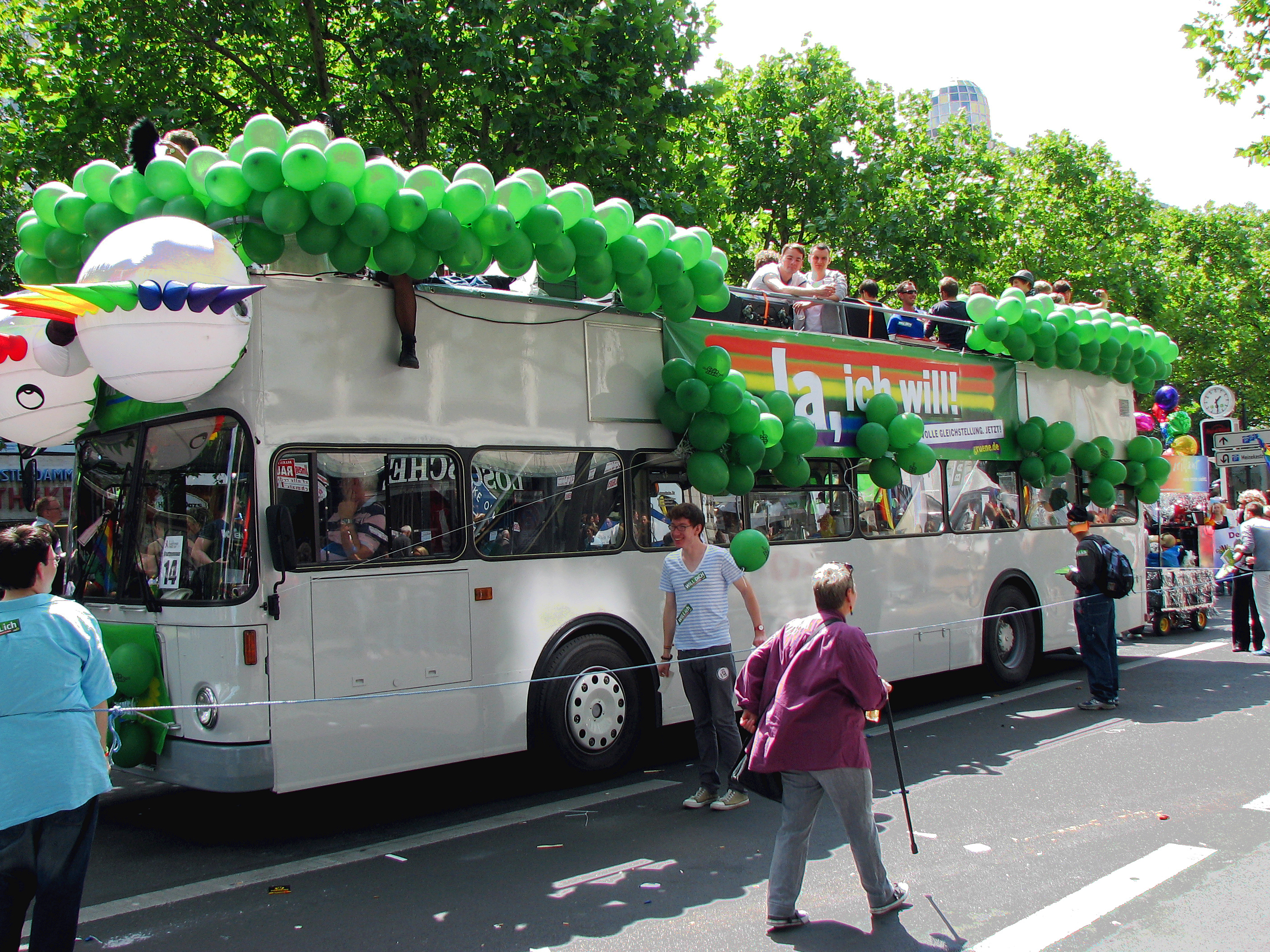 CSD 2011 in Berlin